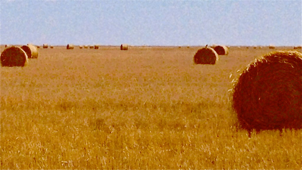 Round hay bales in a Río Negro Province field (Adolfo Alsina County), Argentina.